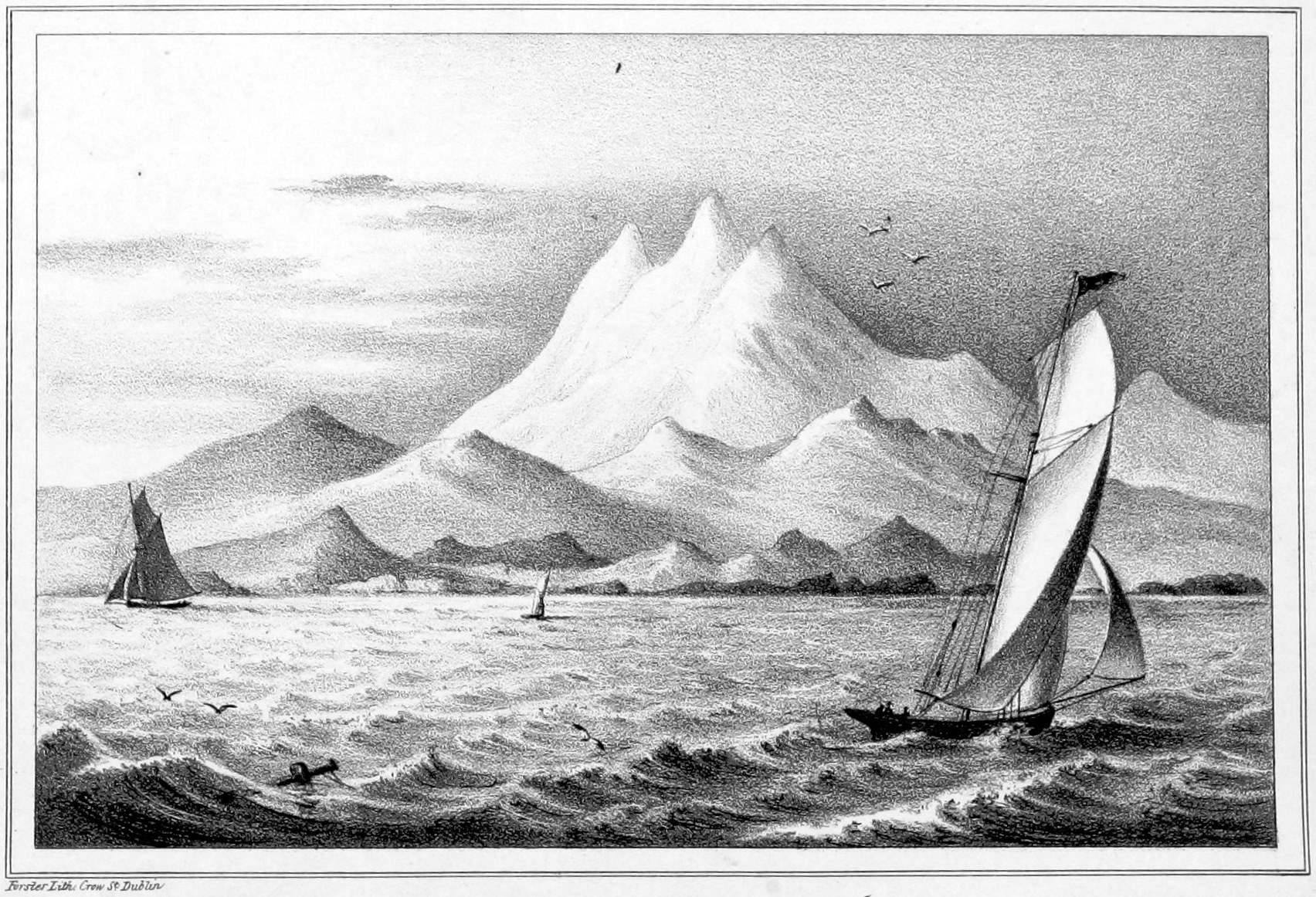 Image extracted from page 6 of "Notes of the cruise of the “Caprice” Yacht, Royal St. George's Yacht Club, to Iceland and Norway, in the summer and autumn of 1850. [Signed, W. T. P., i.e. W. T. Potts.]"', by POTTS, W. T.. Original held and digitised by the British Library. Copied from Flickr. Image rotated, cropped, greyscale, levels adjusted.